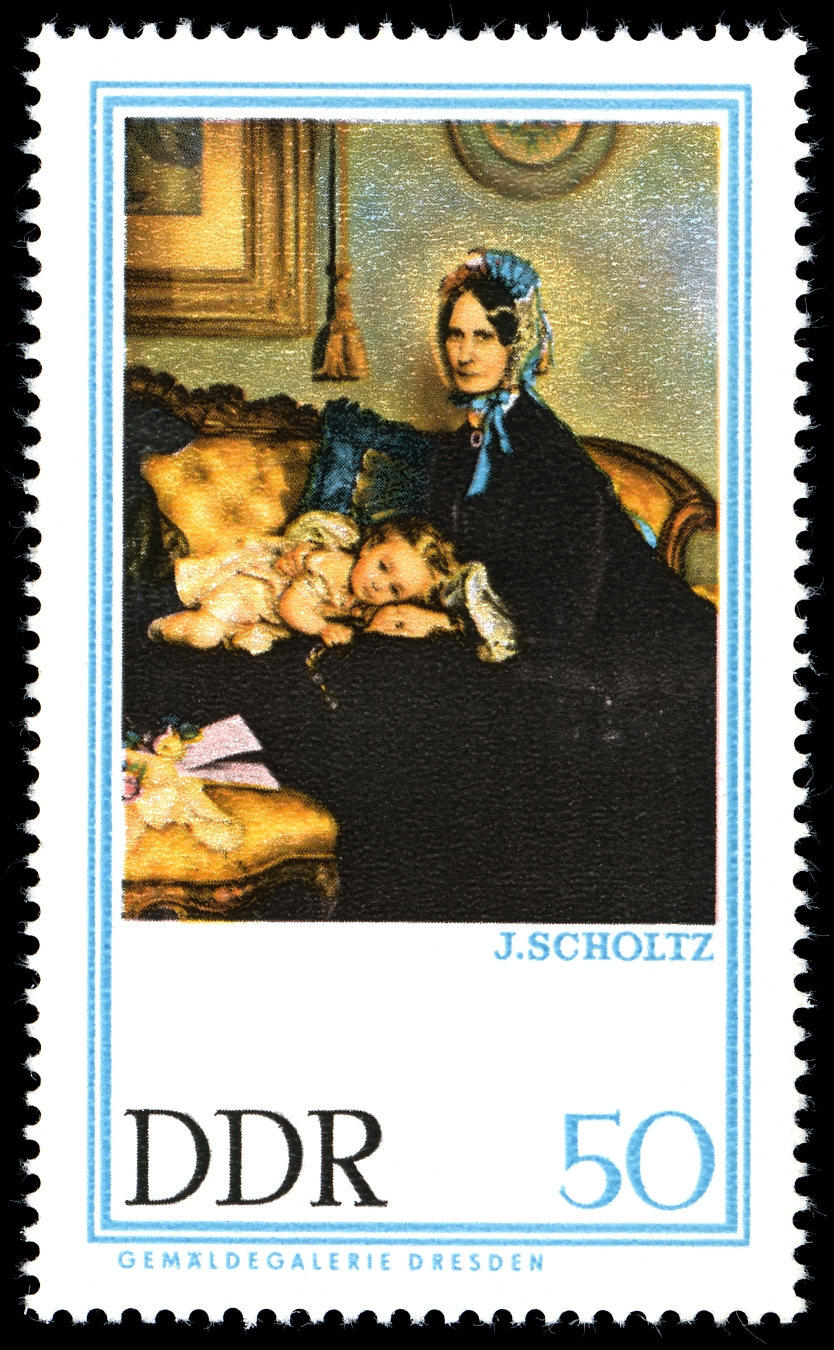 Ausgabepreis: Pfennig First Day of Issue / Erstausgabetag: Auflage: Entwurf: Julius Scholtz (1825–1893) Alternative names jul. scholtz; rudolf scholz; j. scholtz; j. scholz; jul. scholz; julius scholzDescriptionGerman painterDate of birth/death 12 February 1825 2 June 1893Location of birth/death Wrocław DresdenWork location Dresden (1844–1893)Authority control : Q1606397 VIAF: 10609175 ISNI: 0000 0000 6674 9648 ULAN: 500170515 LCCN: no2008092026 GND: 116902329 WorldCat creator QS:P170,Q1606397 Druckverfahren: Michel-Katalog-Nr: Ländercode-MiNr